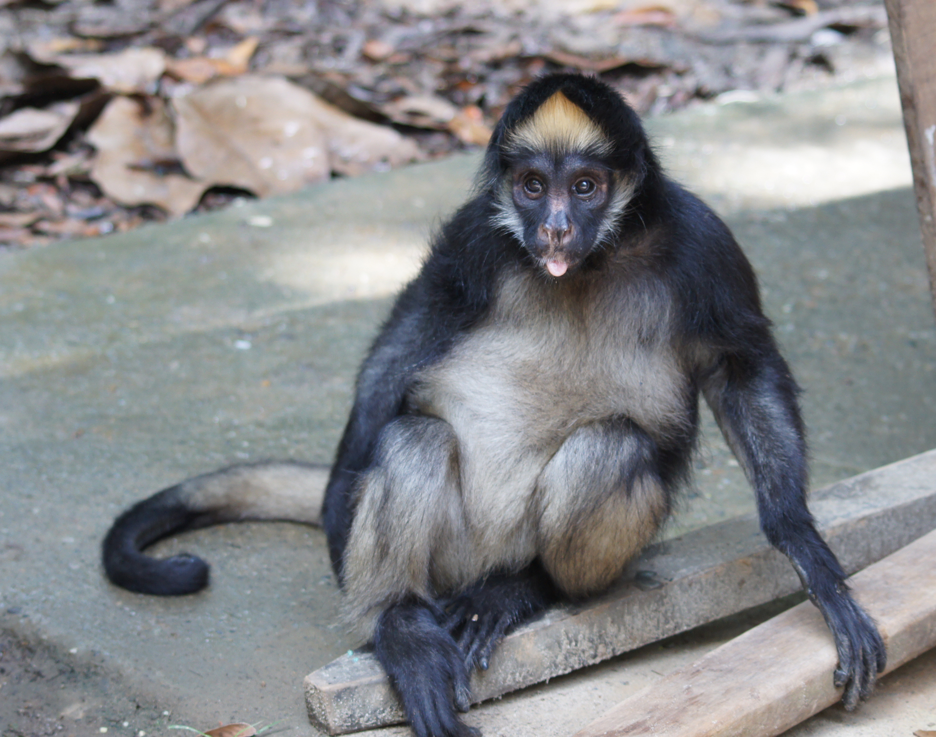 White-bellied spider monkey (Ateles belzebuth) in Equatorian Amazon.